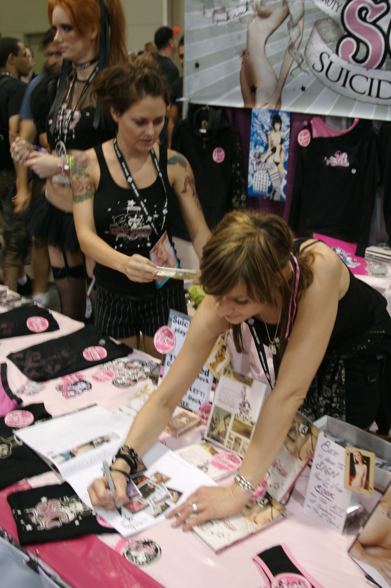 Sam Doumit signing the SG mag/book at San Diego ComicCon 2007.